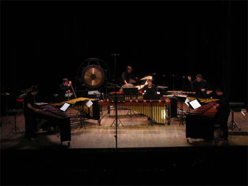 The Percussions-Claviers de Lyon ensemble performing "Sextett" by Steve Reich [Salle Rameau, Lyon, France, November 6, 2006]. Other pictures documenting live music performances can be found